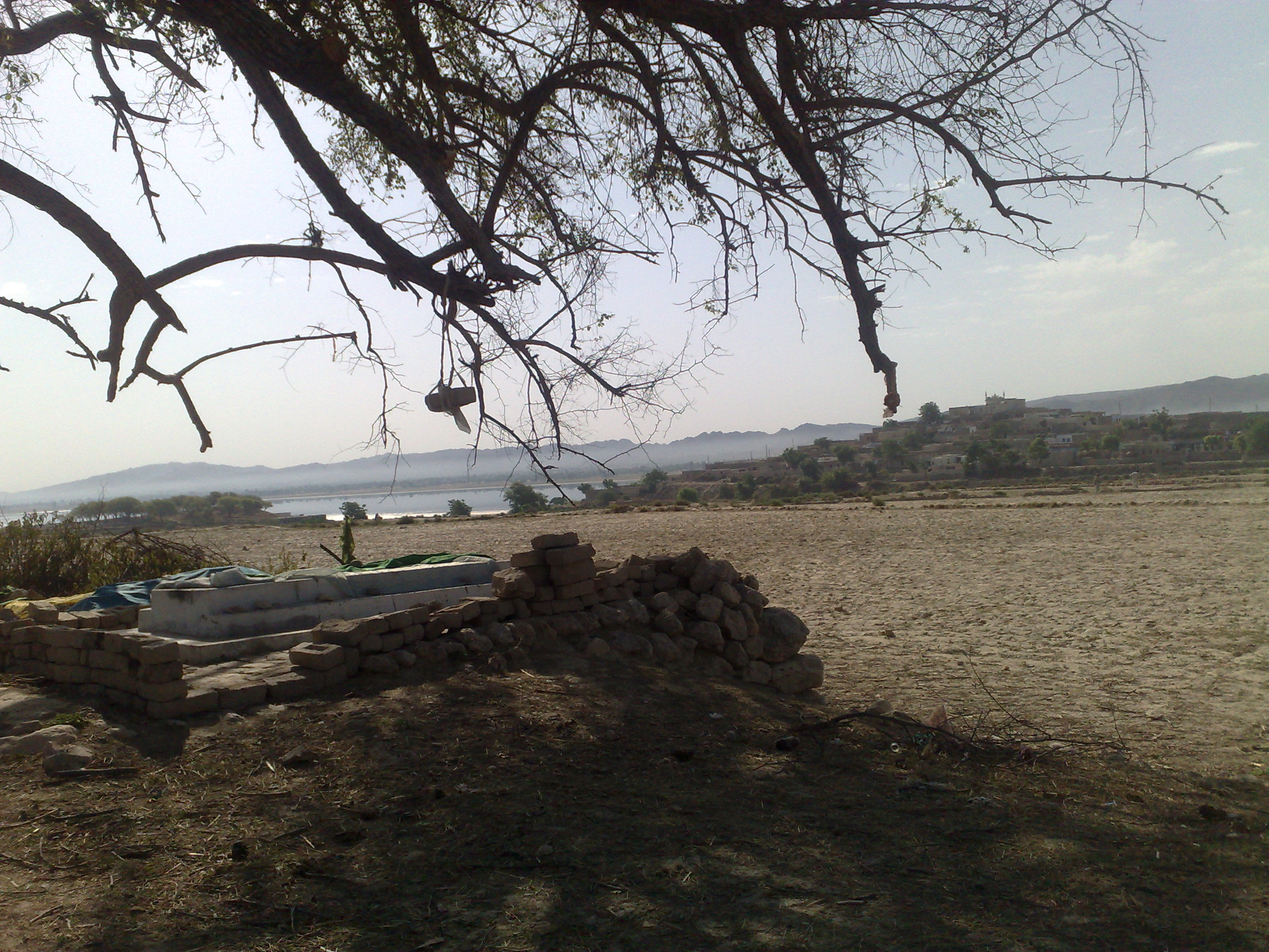 Chitta Village as seen from under the tree.